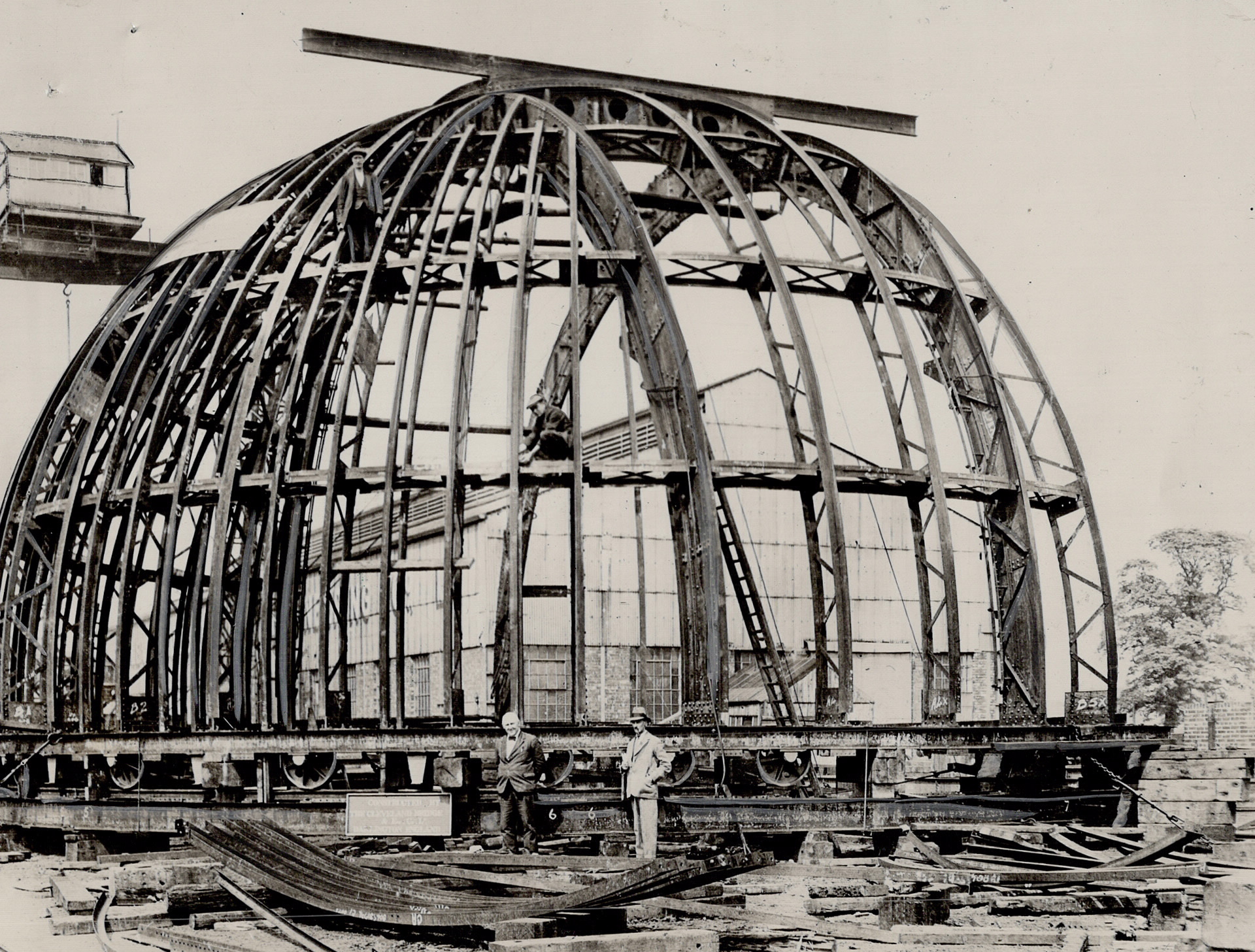 Construction of the dome for the Dunlap Observatory. The dome was built in Newcastle upon Tyne in England, after which it was dismantled and shipped to Richmond Hill, Ontario, Canada for installation.